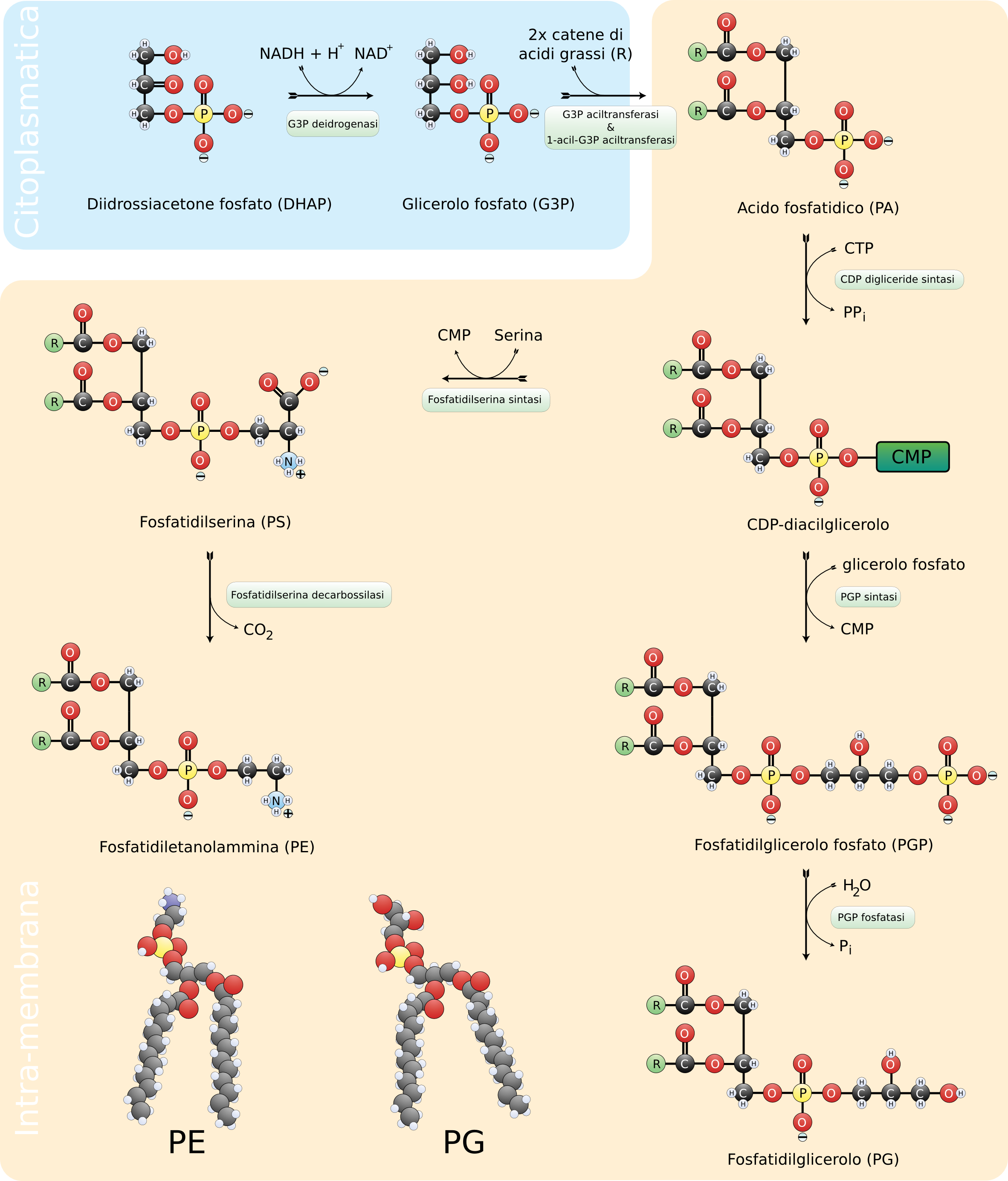 Biosynthesis of various phospholipids starting from DHAP